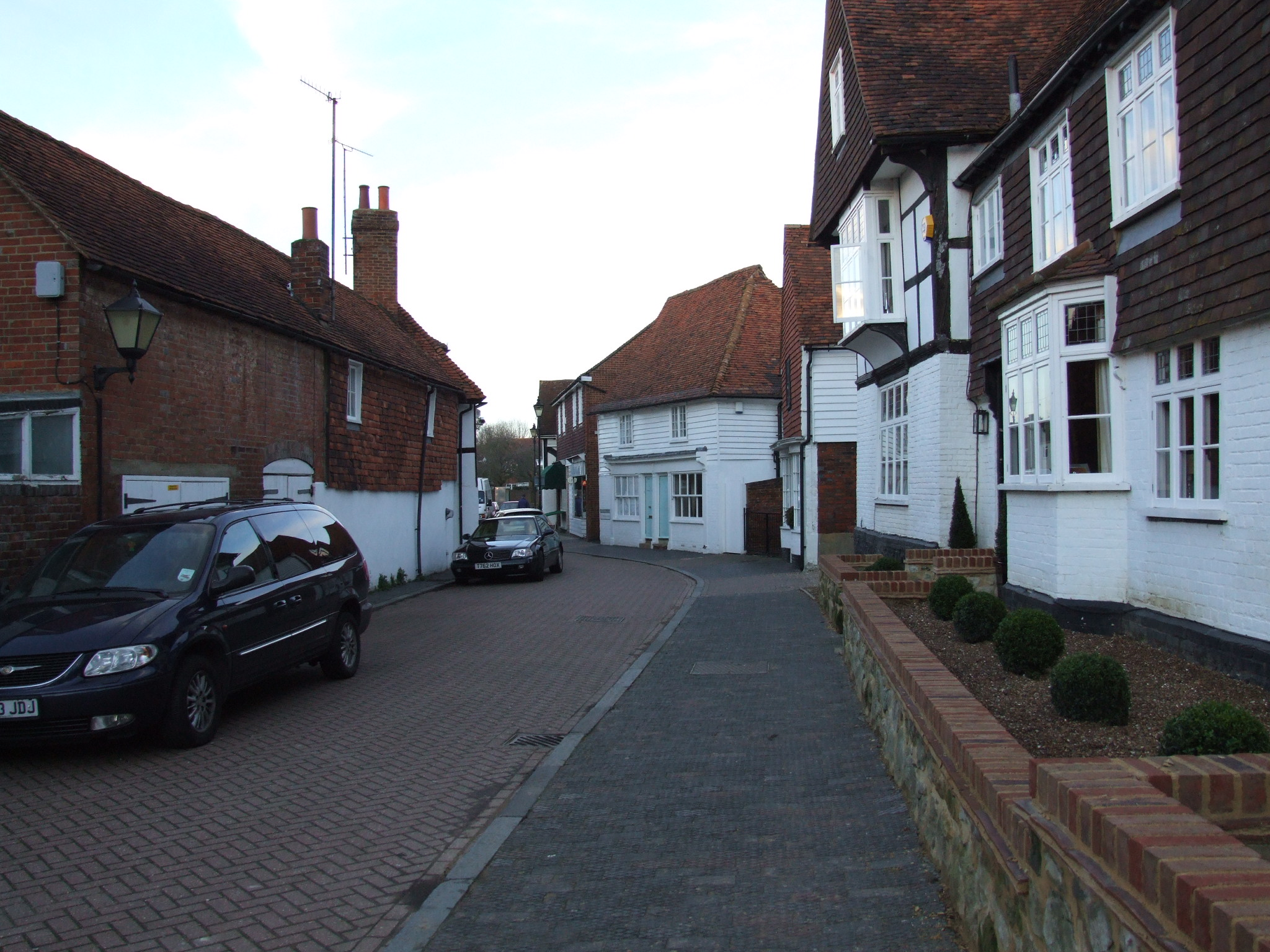 Hadlow is a village in the Medway valley near Tonbridge, Kent. Church Street